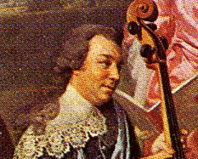 Sir William Young, 1st Baronet